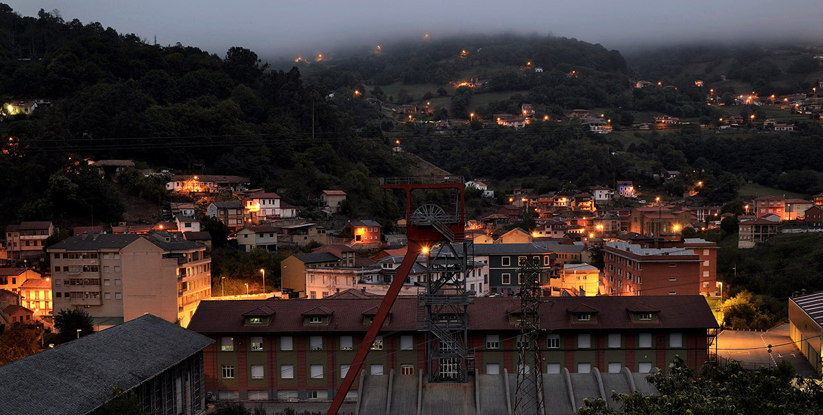 Asturias is diferent